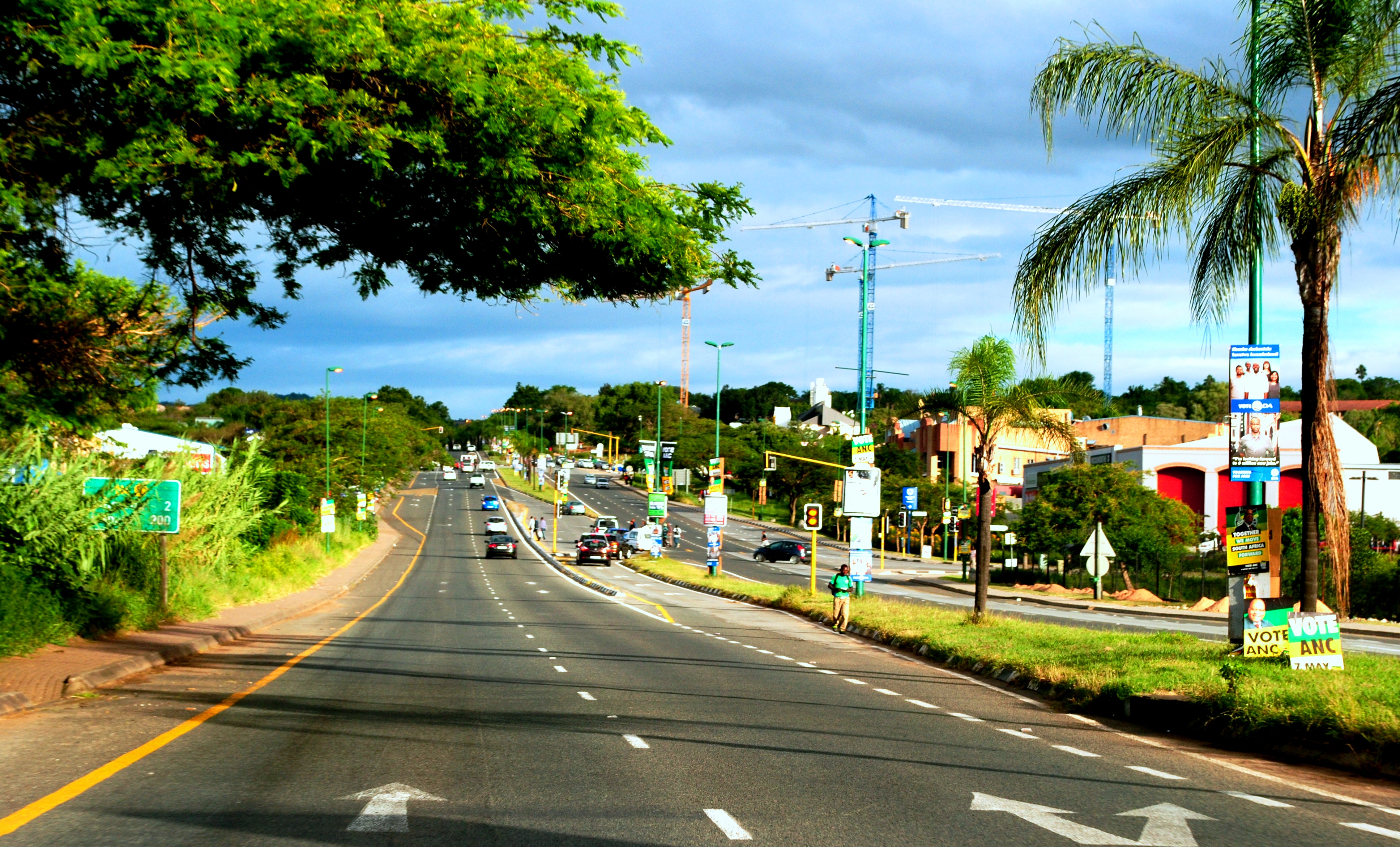 The main road (N4) entering the city of Nelspruit, South Africa